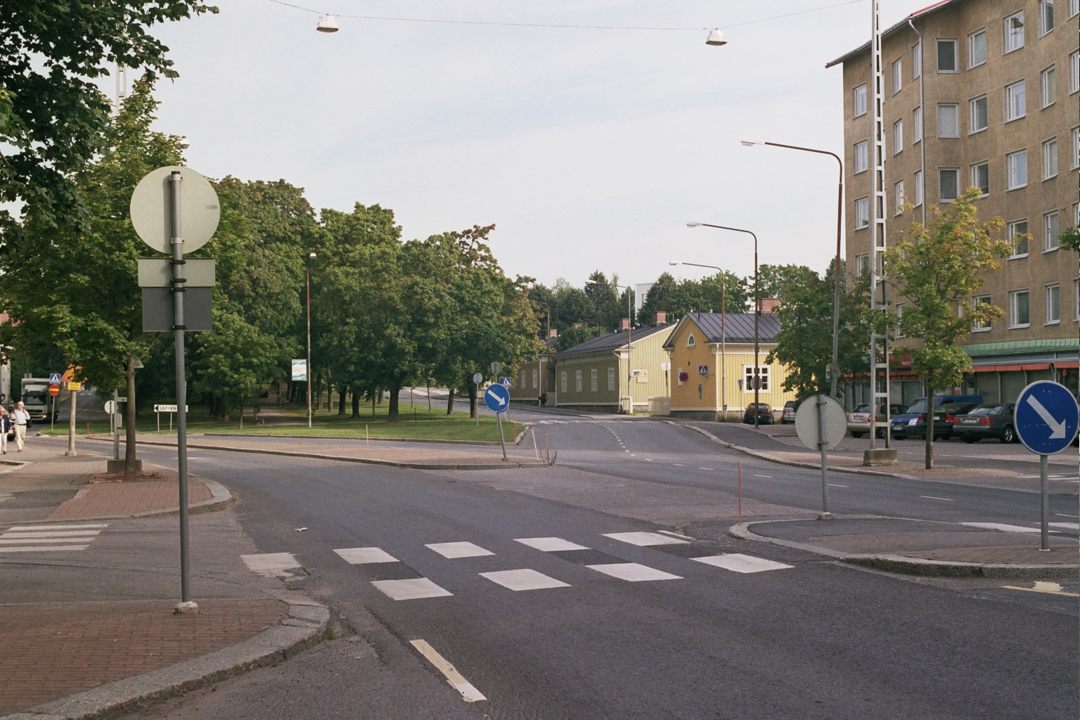 Kalevan puistotie, a street in Tampere, Finland.